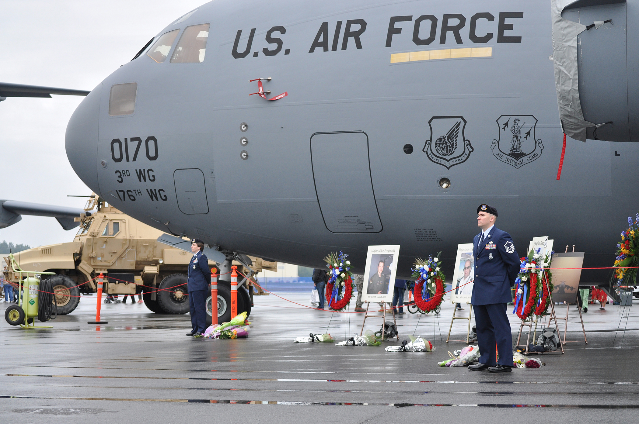 Master Sgt. Brian Johnson (right) and 2nd Lt. Sherry Ferno, both of the 176th Security Forces Squadron, stand guard at the memorial display for Sitka 43 during the Arctic Thunder Air Show July 31, 2010, at Joint Base Elmendorf-Richardson, Alaska. Four aviators were killed when their C-17 Globemaster III, call sign Sitka 43, crashed July 28 as they practiced for the air show.